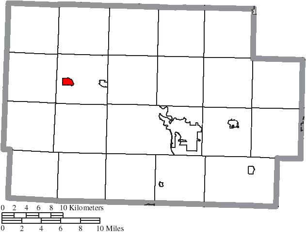 Map of the municipal and township boundaries of Coshocton County, Ohio, United States, as of the 2000 census, with the location of the village of Nellie highlighted. Township borders are shown only in unincorporated areas in order to differentiate incorporated and unincorporated areas more clearly.